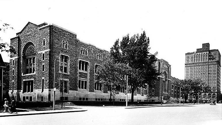 Royal Ontario Museum in foreground, with Park Plaza Hotel in background — in Toronto c.1930.